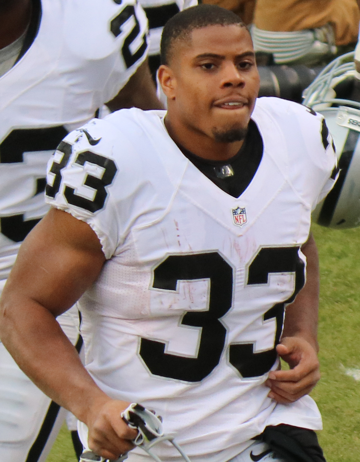 DeAndre Washington, a player on the National Football League.